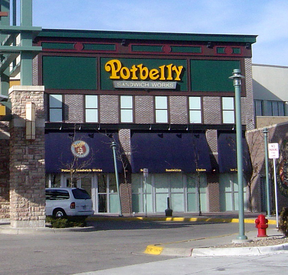 A Potbelly Sandwich Works in Eden Prairie. Photo taken by Bobak Ha'Eri, on November 16, 2006. Please observe license and properly cite in use outside Wikipedia.